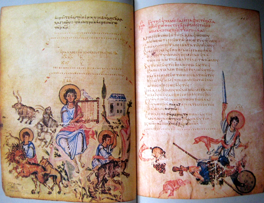 king David from Chludov Psalter